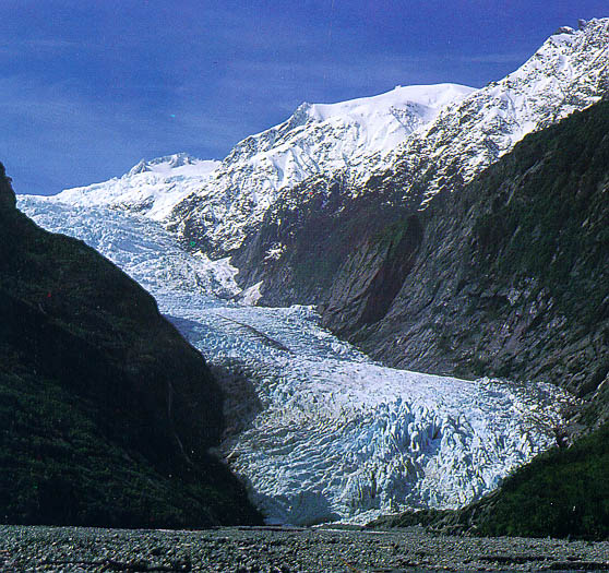 Franz Josef Glacier photographed from the valley floor